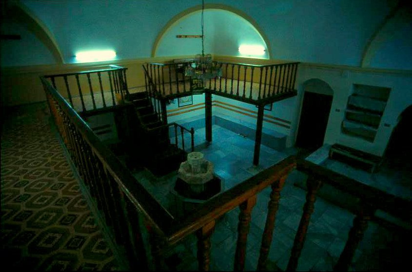 Darghouth Turkish bath interior — Tripoli Old Town (medina), Libya.